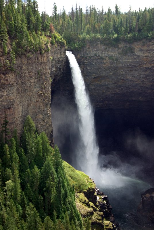 Helmcken Falls in Wells Gray PP, British Columbia, Canada